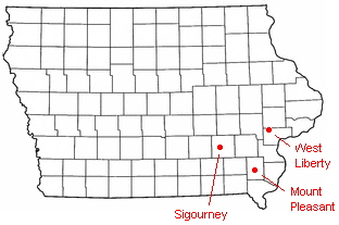 Adapted from Iowa city doton maps by Dekkanar.